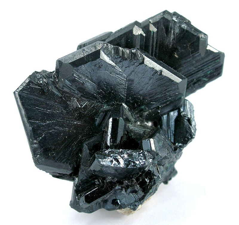 Chalcocite Locality: Mammoth Mine, Mount Gordon, Gunpowder District, Mt Isa - Cloncurry area, Queensland, Australia (Locality at ) Size: 3.6 x 2.7 x 2.7 cm. This specimen is a competition-level, complete-all-around STUNNING miniature, with a cluster of three intergrown crystals to 3 cm long, perched on a small knob of matrix. It is STUNNING, visually, both for the lustre and the sharp geometry of the piece. Complex beveled terminations throw off reflections in every direction. There is no damage except a teeny contact atop and a few contacts or breaks on the bottom peripheral crystals, while the major crystals are not only upright, but astoundingly 3-dimensional (more so in person!). This is a MAJOR miniature for the species, to my eye better in absolute quality than some Bristol or Wisconsin locality specimens I have seen over the years.